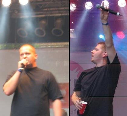 Tatwaffe (left) and Def Benski Obiwahn (right) of the German hip hop group Die Firma